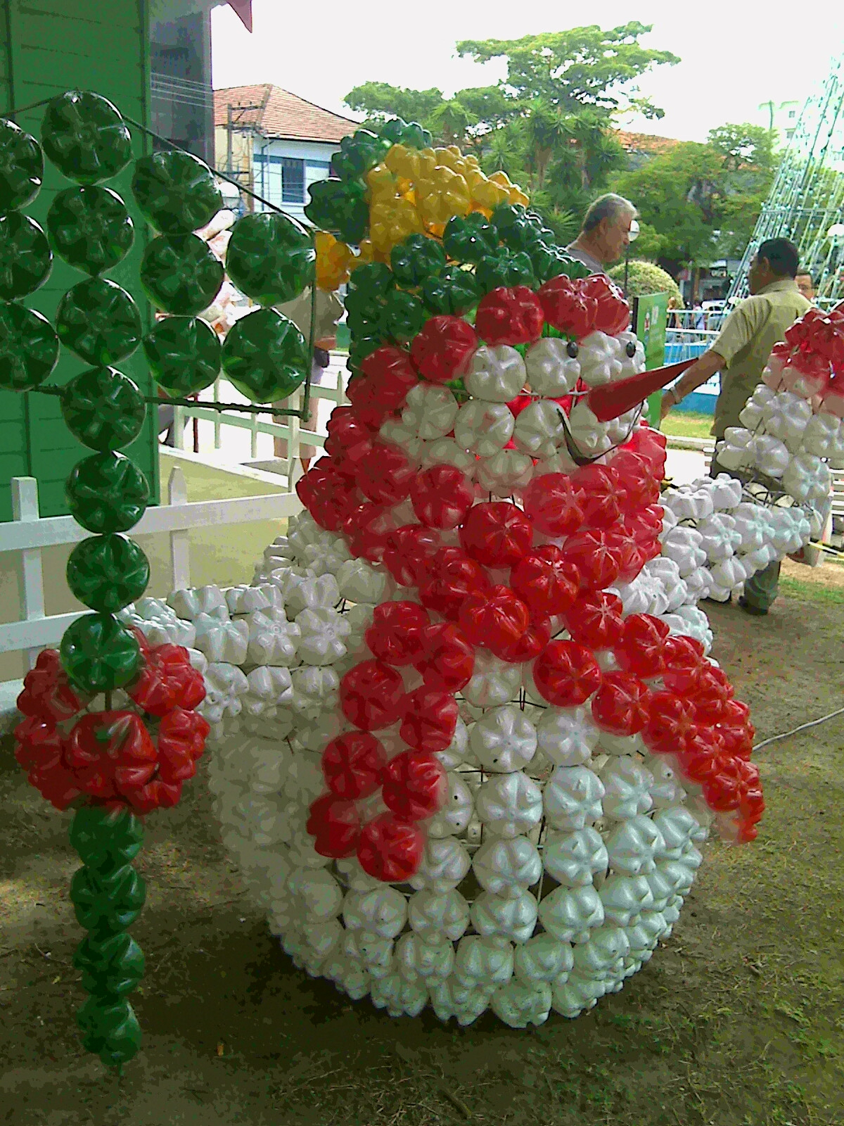 Penguin of Plastic Bottles